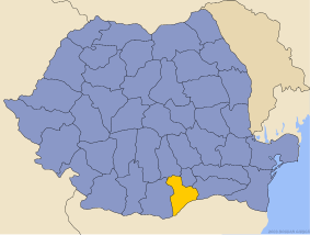 Location of Giurgiu County in Romania.